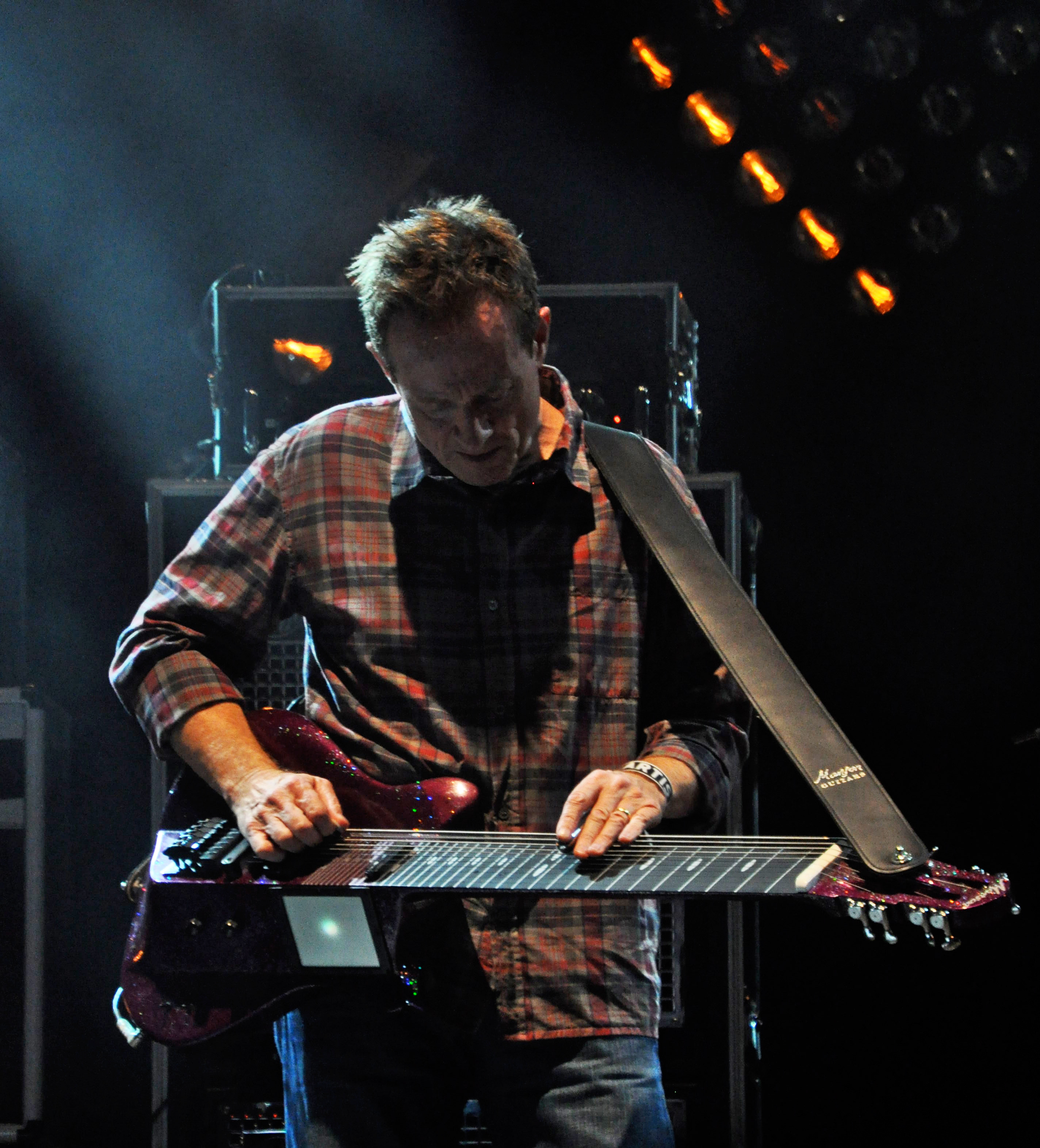 John Paul Jones Slide in concert, October, 2009